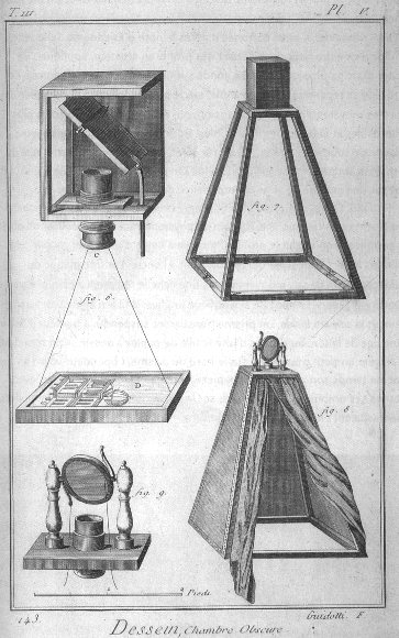 Camera obscura